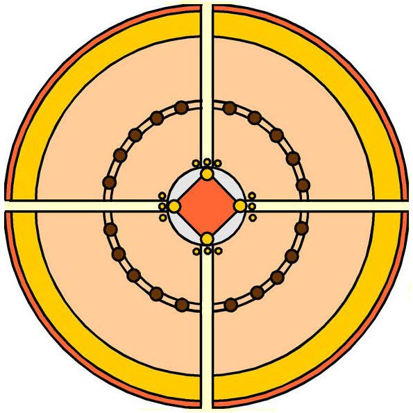 House of Rauðúlfur. Rauðúlfs þáttur